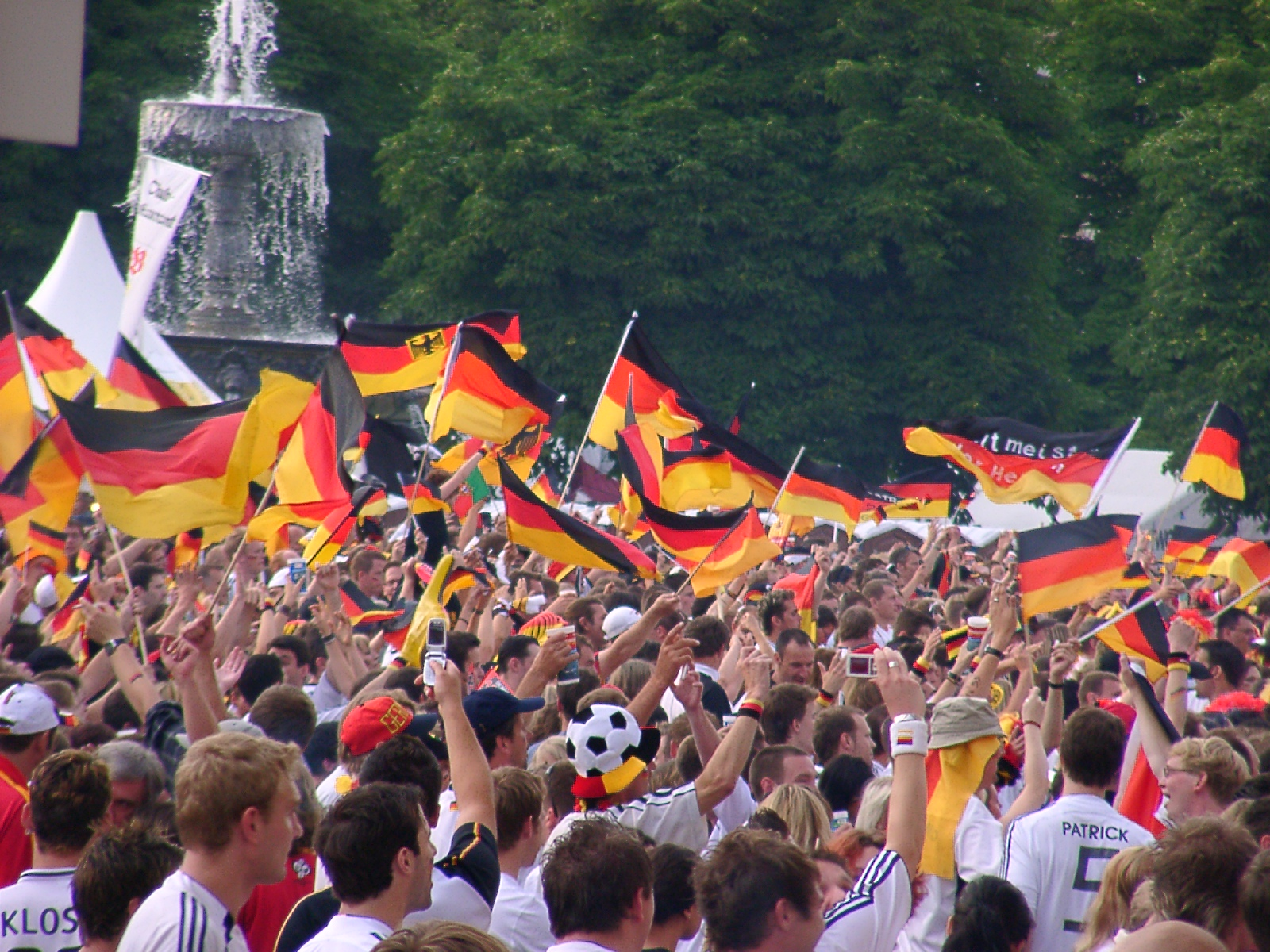 German fans in Stuttgart during third place play-off at 2006 FIFA World Cup